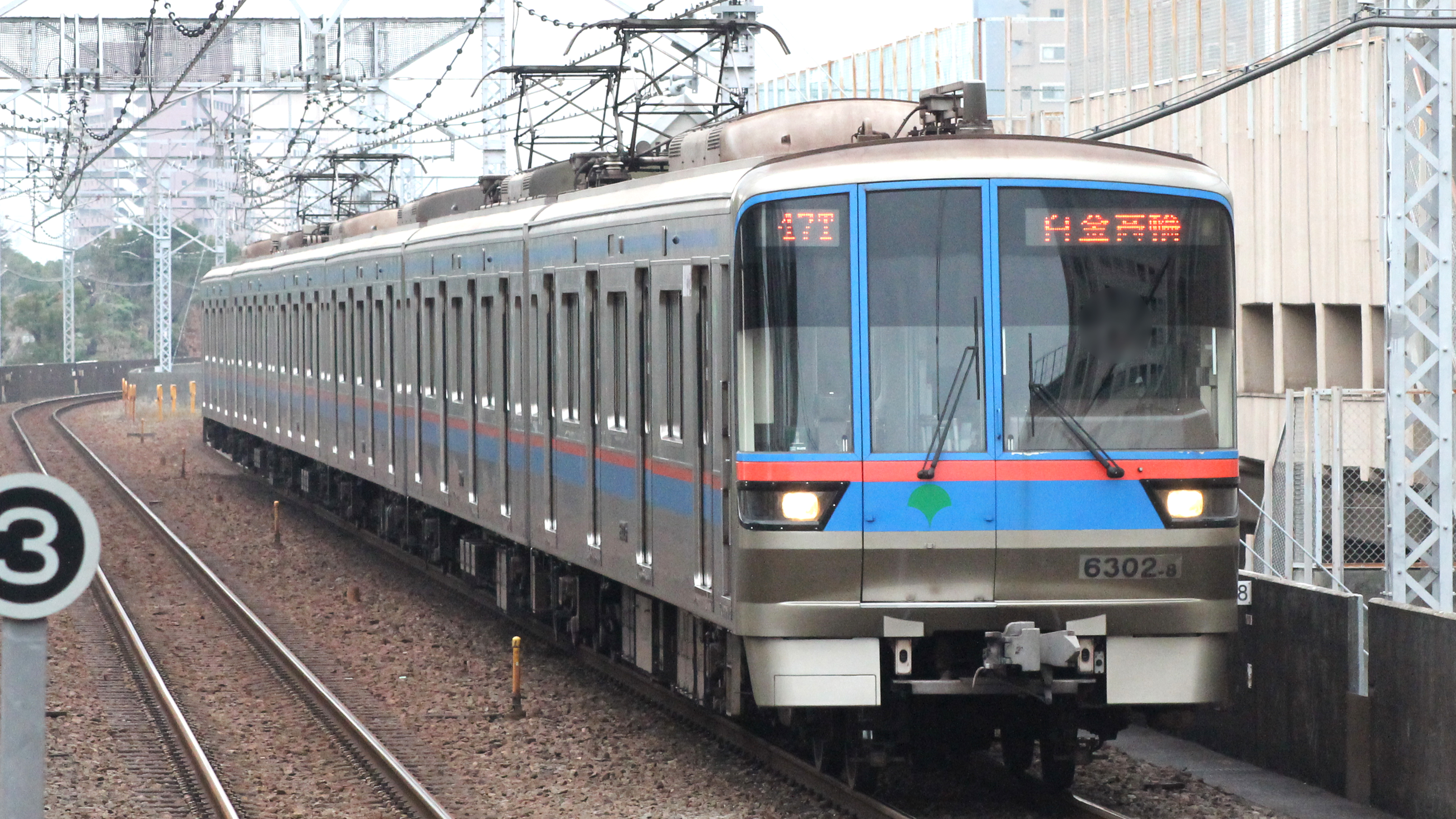 Toei 6300 series EMU set 6302 entering the Nishidai Station on the Toei Subway Mita Line in Itabashi city, Tokyo, Japan